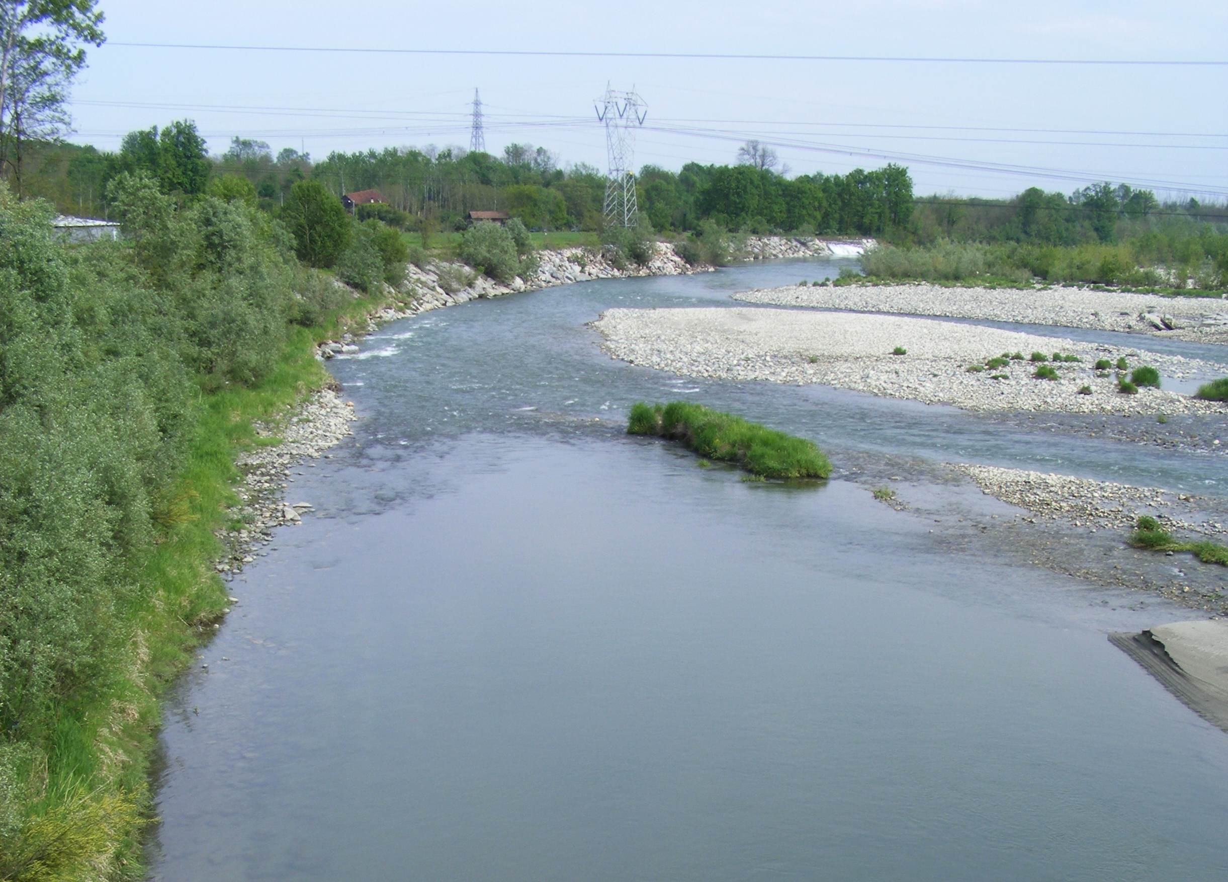 Dora Baltea river near Rondissone (TO, Italy)